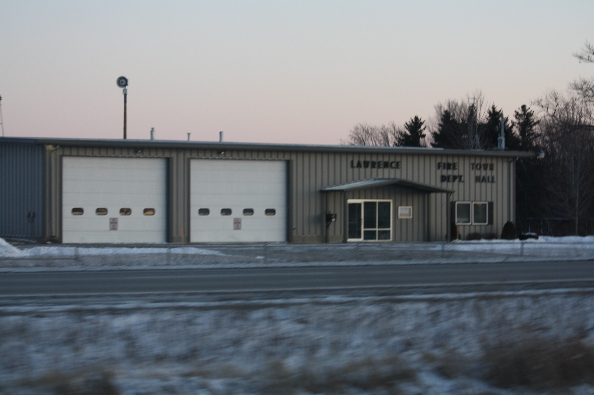 The town hall and fire department for the town of Lawrence, Brown County, Wisconsin.